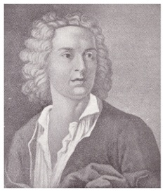 Antonio Cocchi (1773)